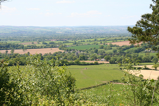 Broadhembury: towards the village